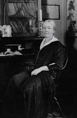 Ellen Biddle Shipman, landscape architect, at her NYC home, Beekman Place, c. 1920.